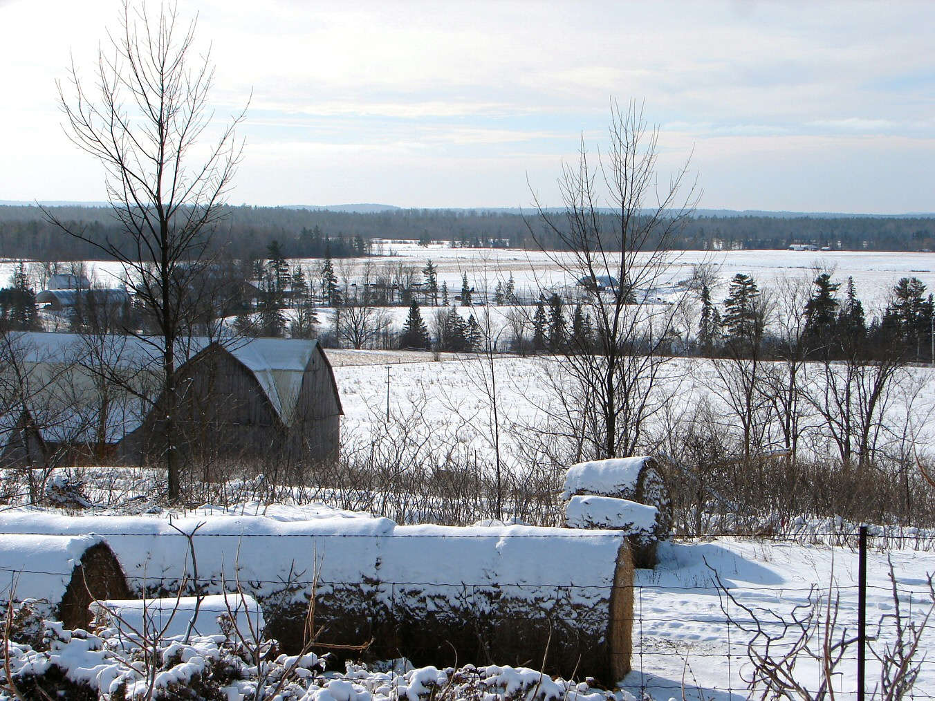 View of McNab/Braeside landscape, Ontario, Canada.